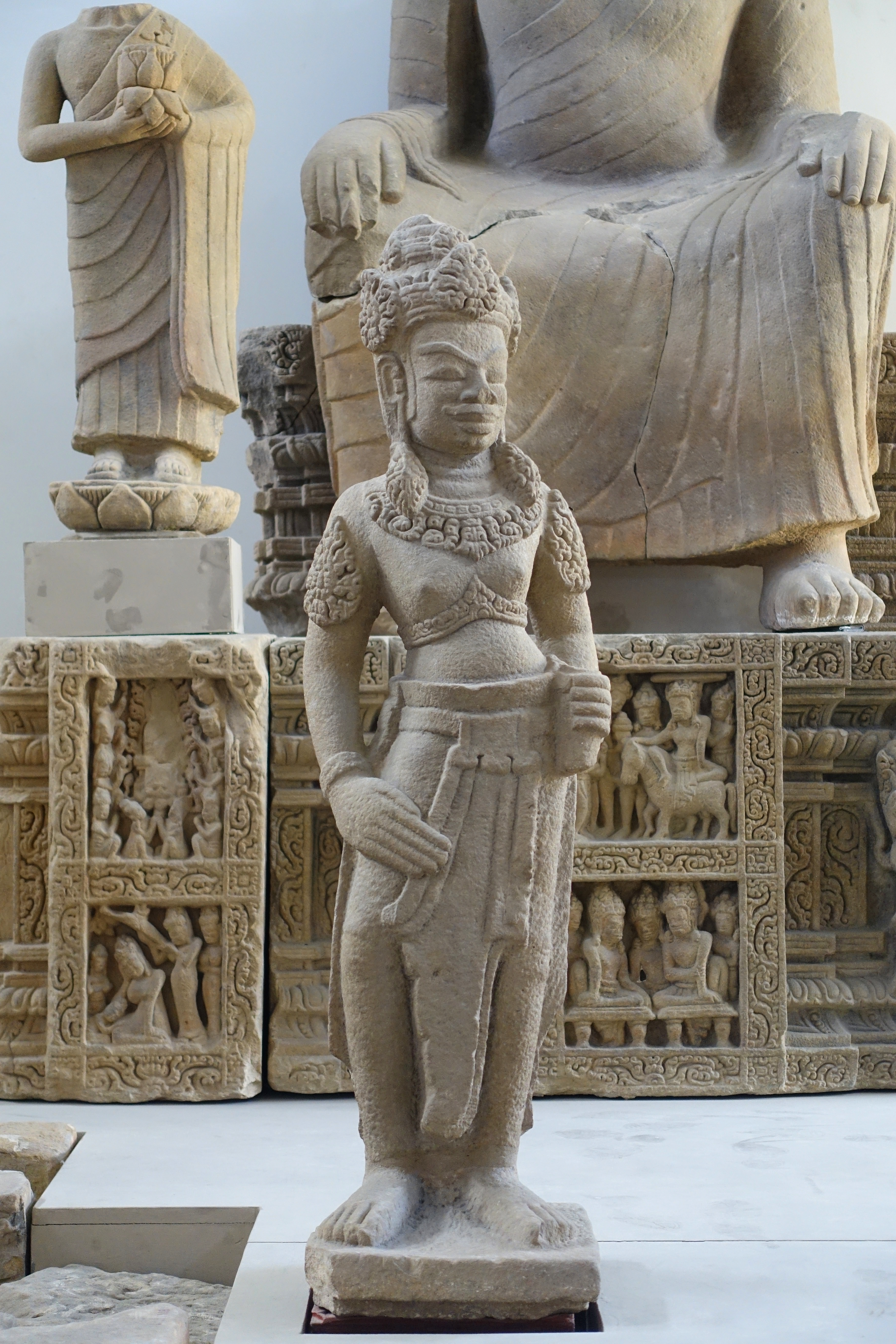 Cham sculpture at the Museum of Cham Sculpture, Da Nang, Vietnam. This artwork is in the public domain because the artist died more than 70 years ago.